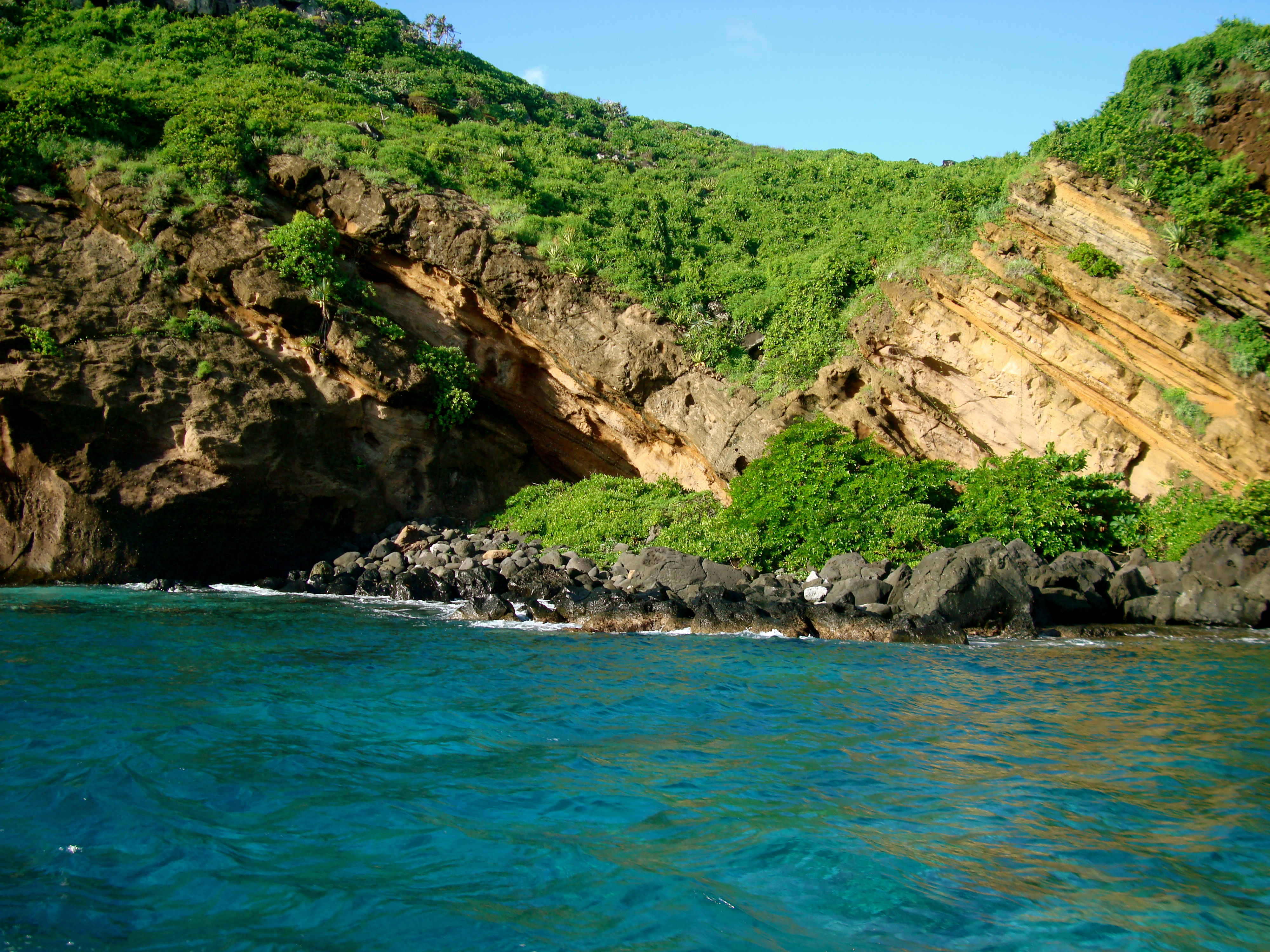 Serpent Island, Mauritius.